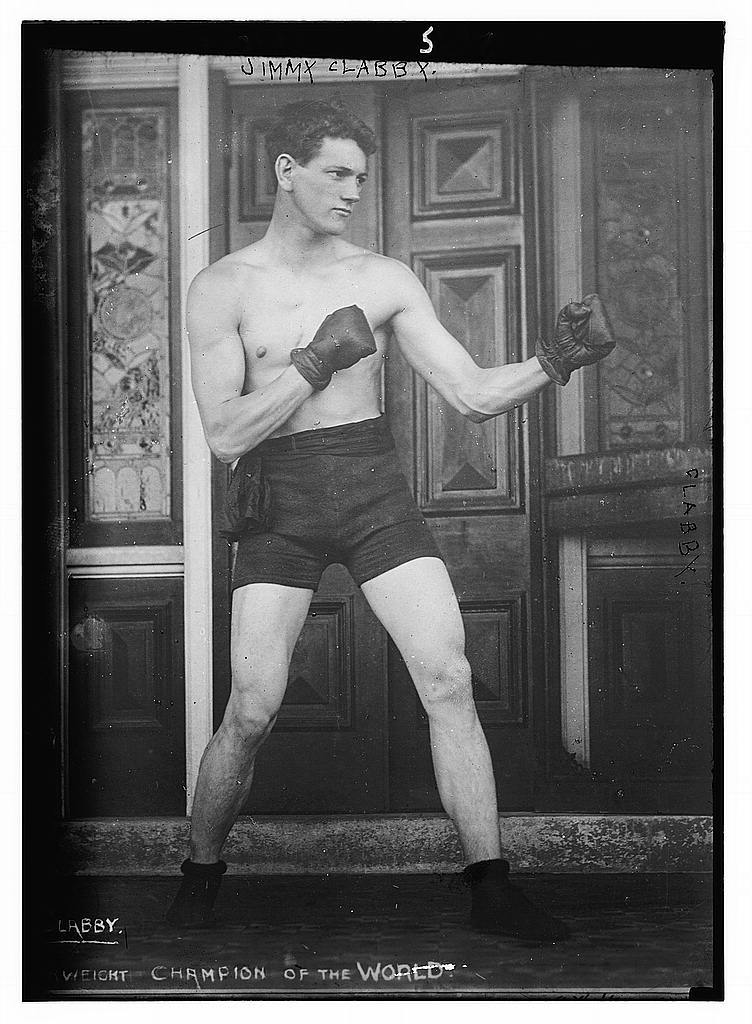 Bain News Service,, publisher. Jimmy Clabby. Boxing [between ca. 1910 and ca. 1915] 1 negative : glass ; 5 x 7 in. or smaller. Notes: Title from unverified data provided by the Bain News Service on the negatives or caption cards. Forms part of: George Grantham Bain Collection (Library of Congress). Format: Glass negatives. Repository: Library of Congress, Prints and Photographs Division, Washington, D.C. 20540 USA, General information about the Bain Collection is available at Higher resolution image is available (Persistent URL): Call Number: LC-B2- 2190-6